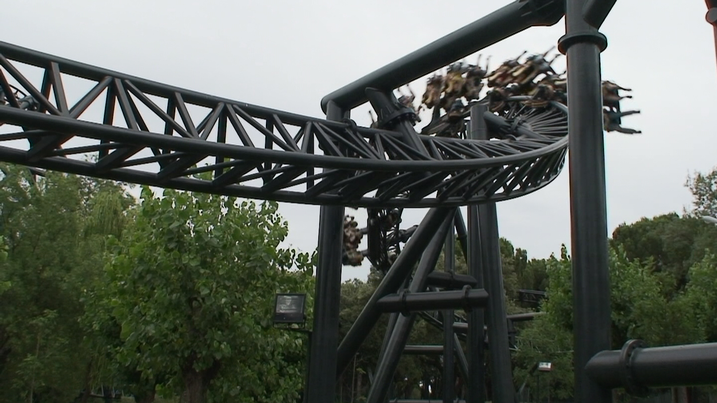 The corkscrew of the roller coaster Tornado at Parque de Atracciones de Madrid